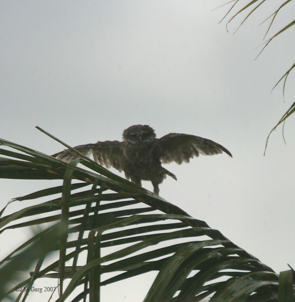 Spotted Owlet Athene brama in Kolkata, West Bengal, India.